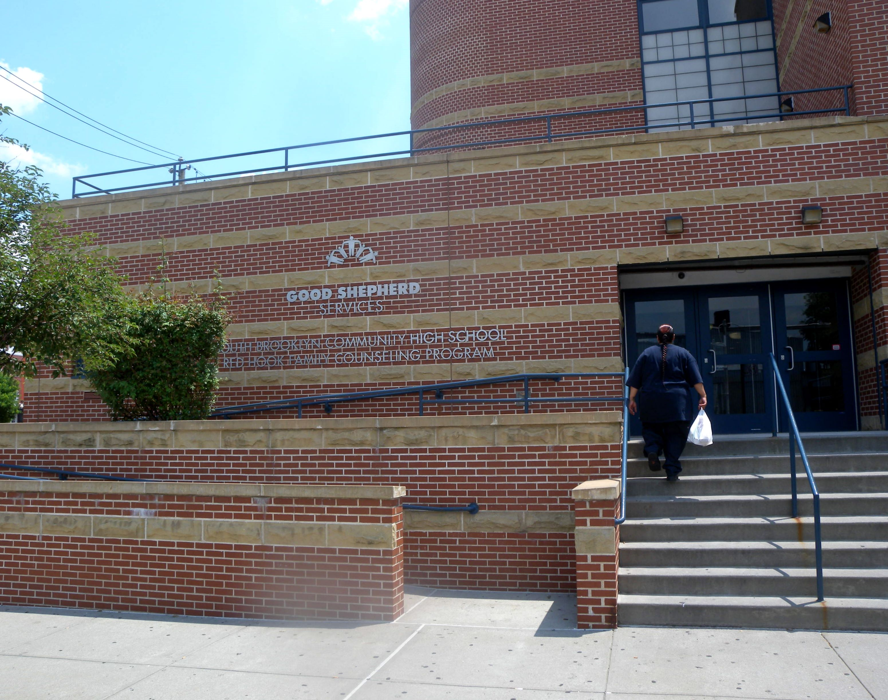 Looking east from Conover Street at South Brooklyn Community High School on a sunny midday.